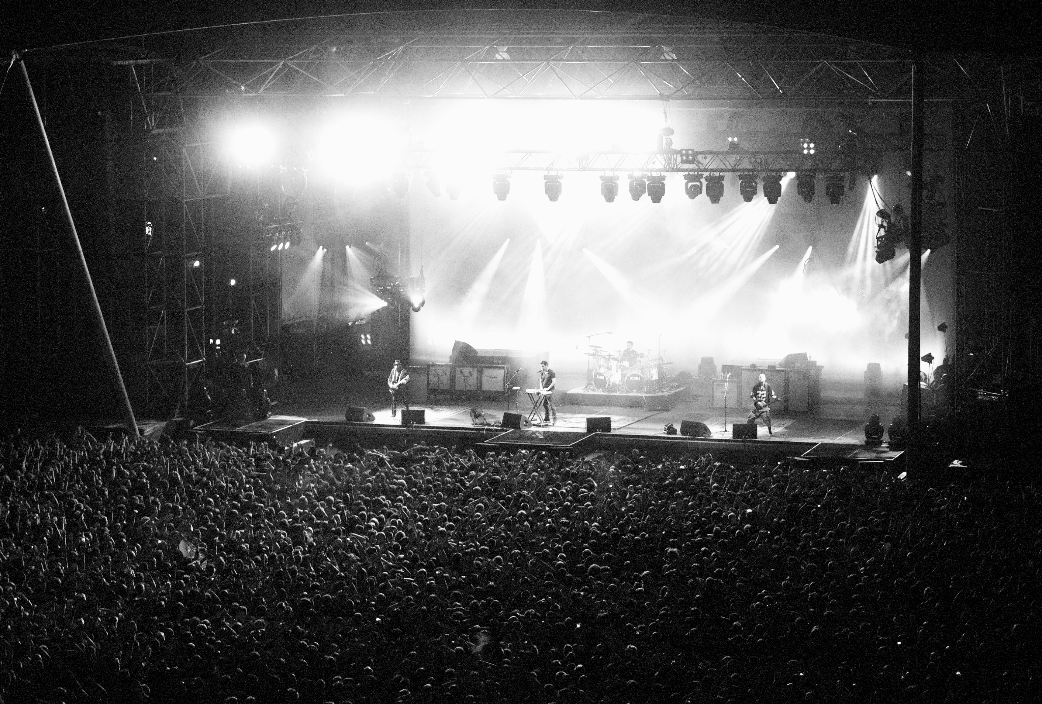 System of a Down during a performance.